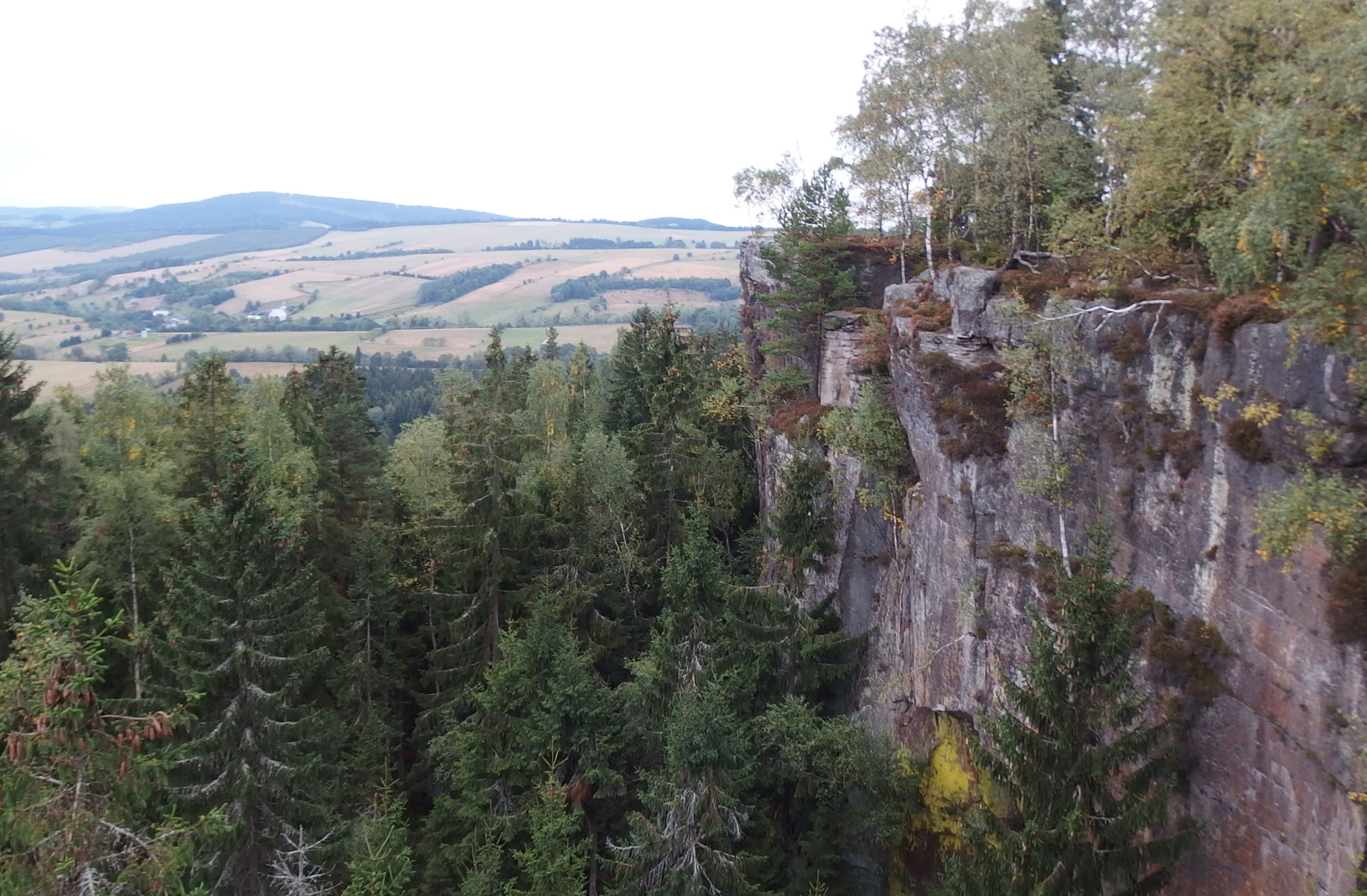 Kopa Śmierci hill in Stołowe Mountains (blue trail between Karłów and Duszniki-Zdrój)